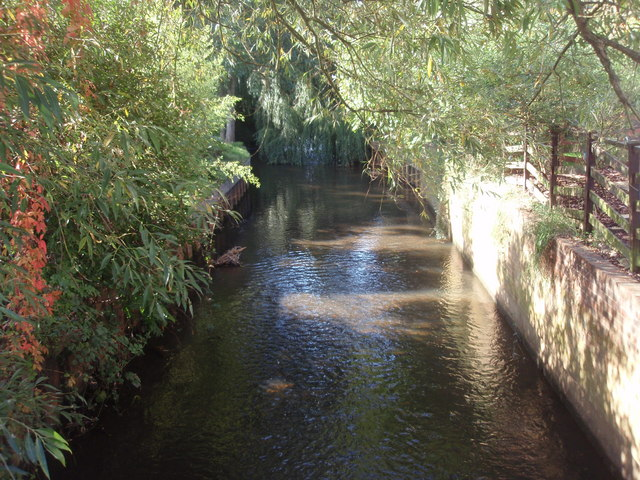 The Bourne The Bourne viewed from Alexandra Road, Addlestone.